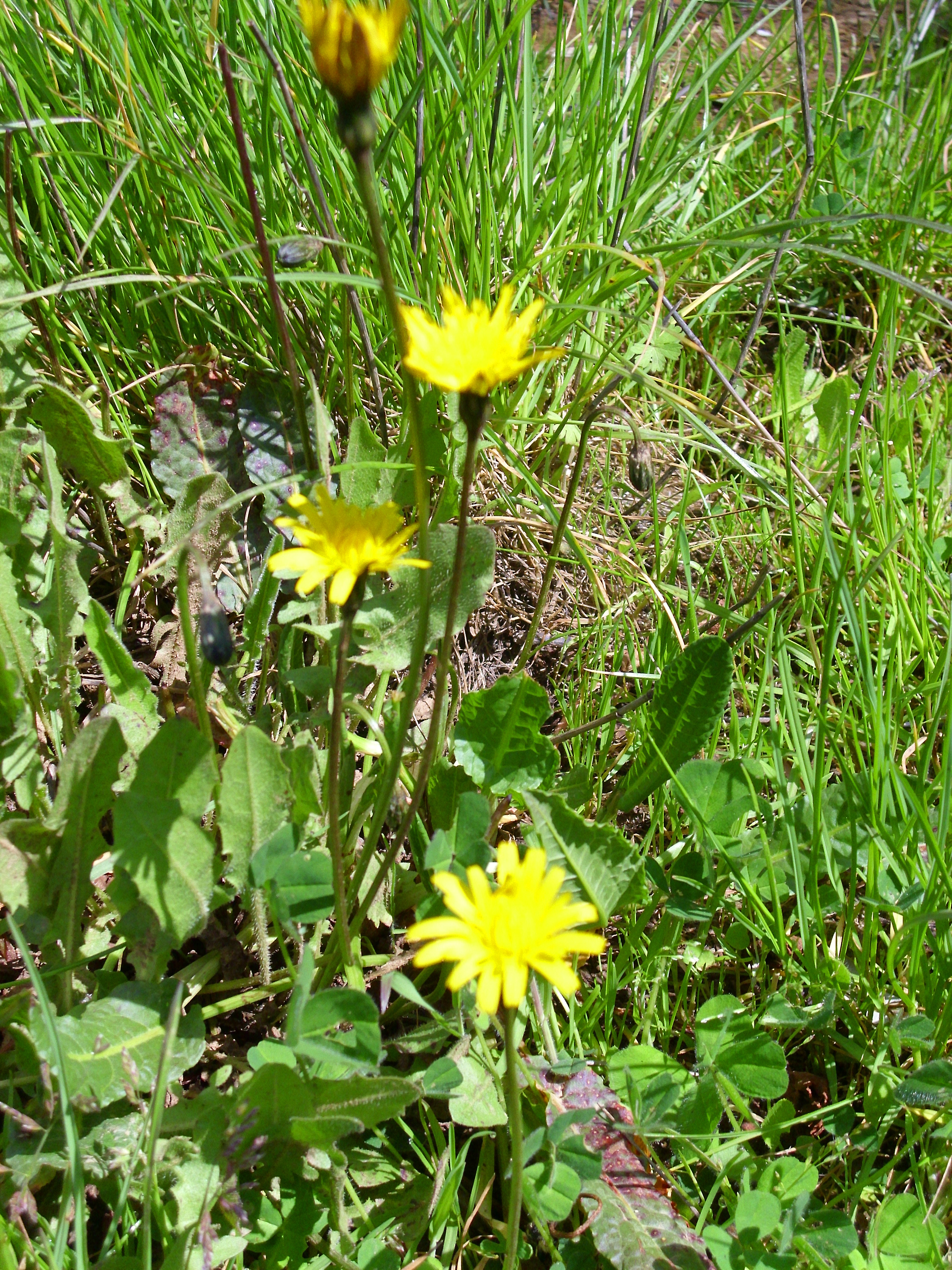 Leontodon tuberosus habit, in Sierra Madrona, Spain.